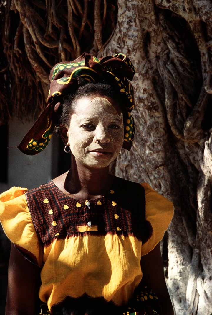 Woman with traditional mask in MozambiqueMozambique n001